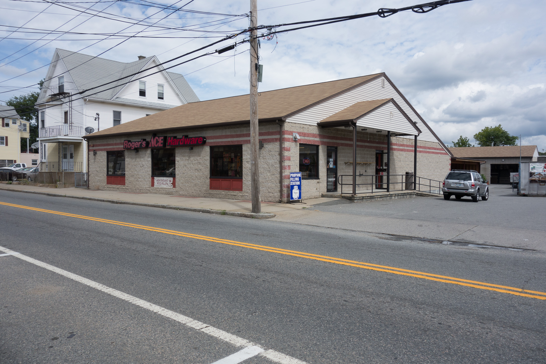 This modern hardware store is located at 161 Broad Street in Valley Falls, Rhode Island, former site of the Patterson Brothers Commercial Building and House.